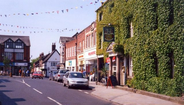 High Street, Market Drayton The Corbet Arms Inn is on the right.